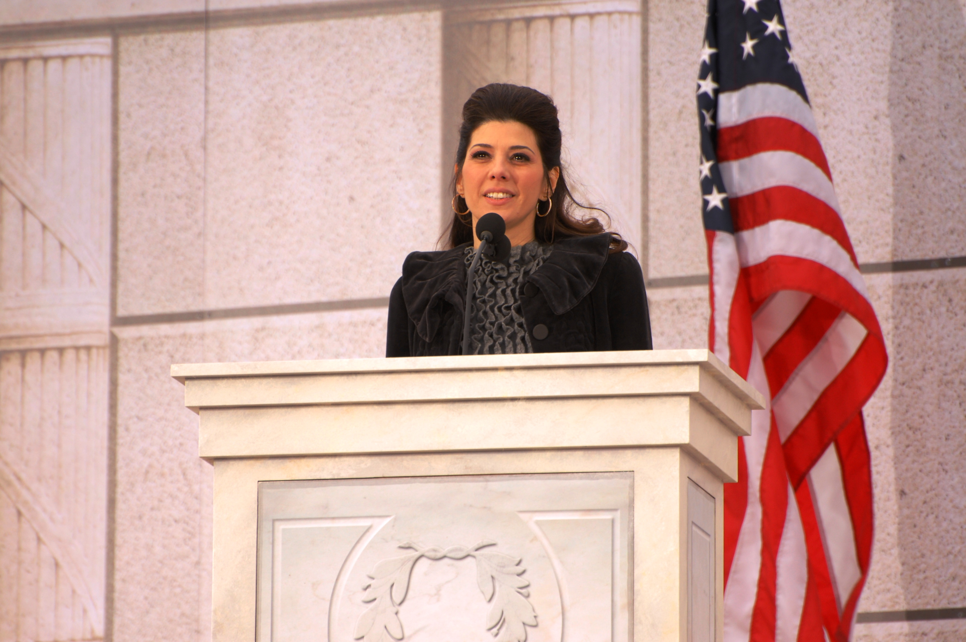 Actress Marisa Tomei quotes part of President Ronald Reagan's inaugural address at the Lincoln Memorial on the National Mall in Washington, D.C., during the Obama inaugural opening ceremonies.